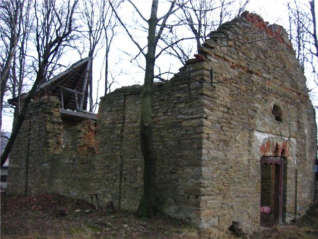 Greek catholic church in Nagórzany, Poland.